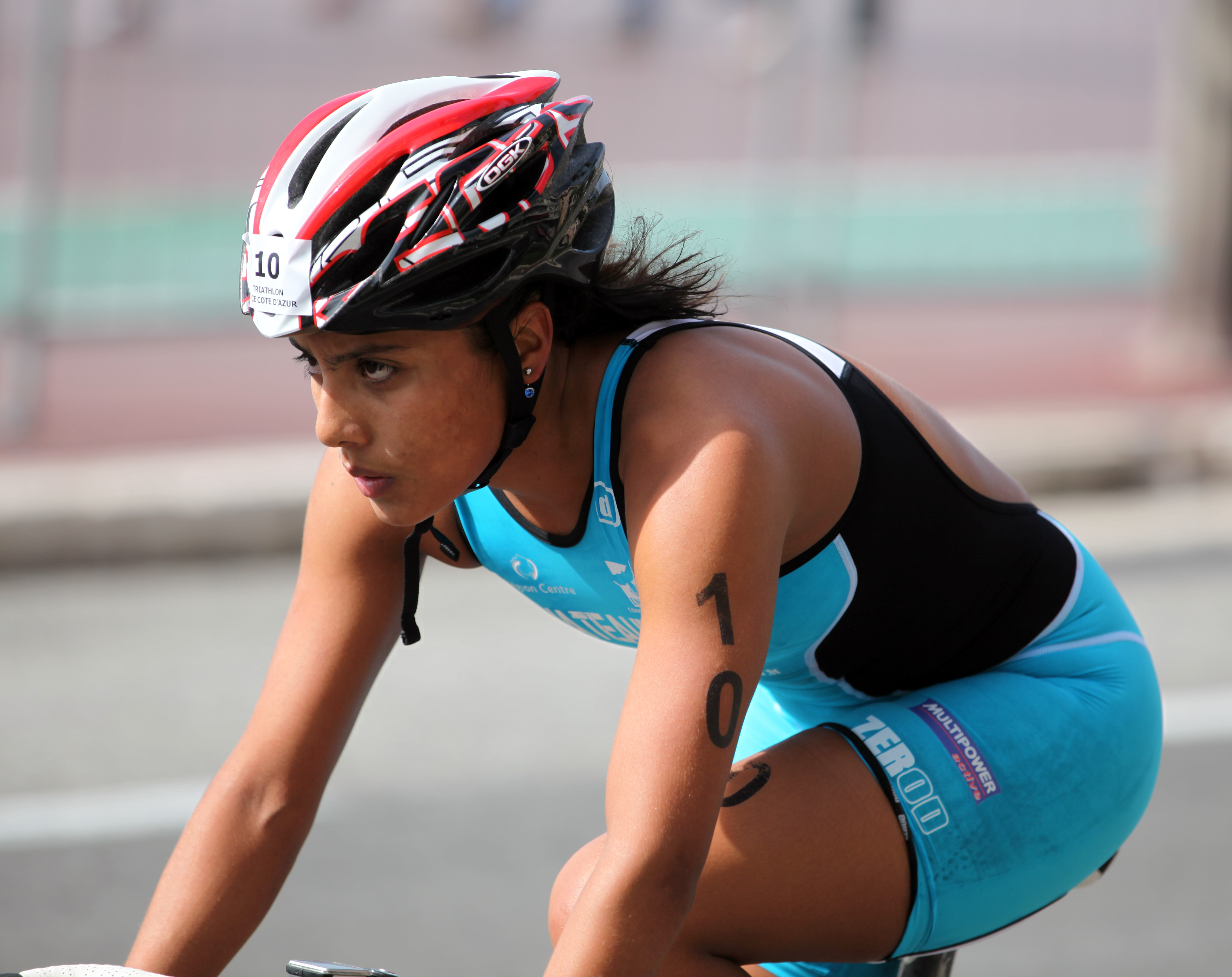 Ruth NIVON-MACHOUD at the first competition of the Grand Prix de Triathlon (French Team Championship) in Nice, 2011.